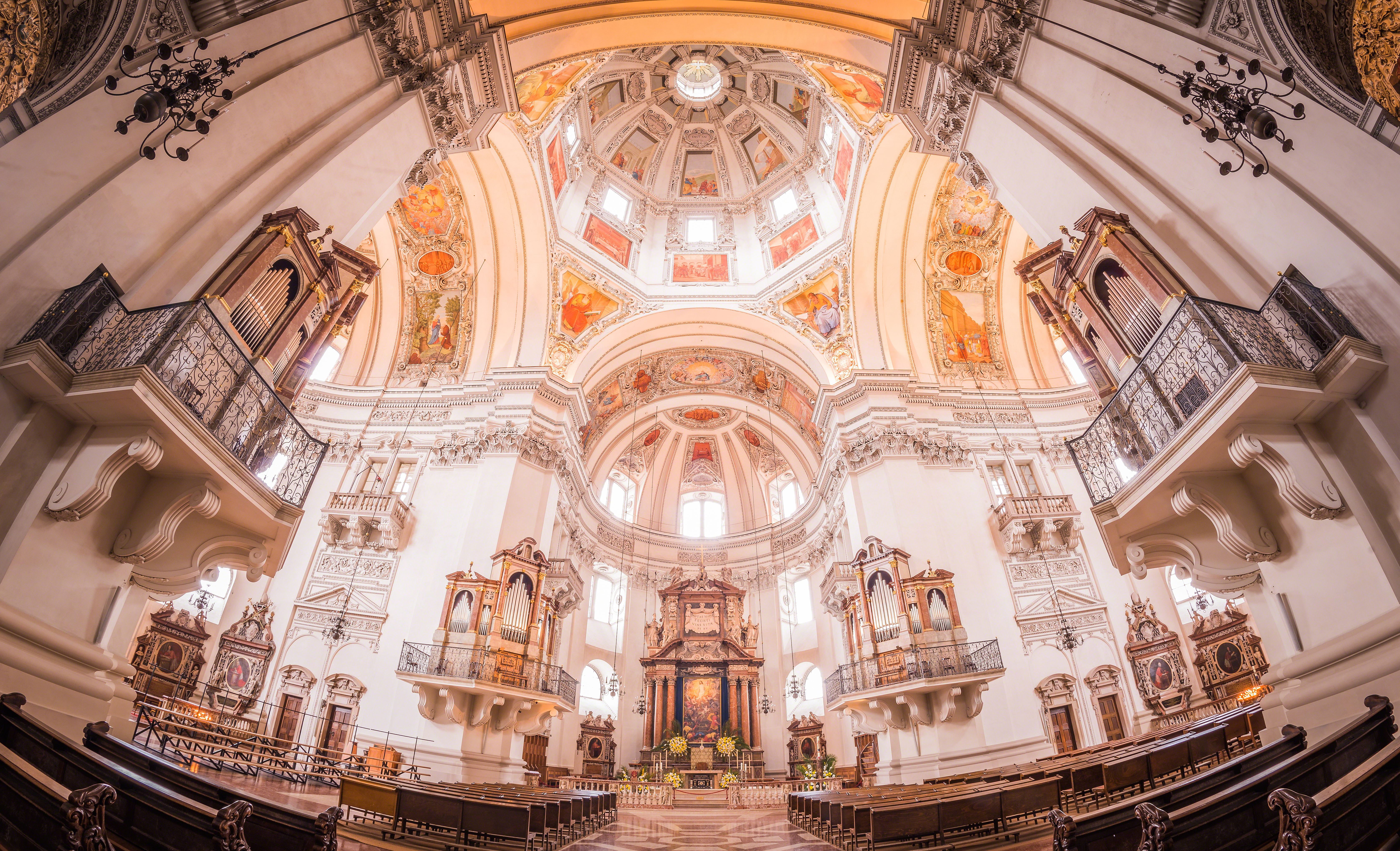 Inside of the Cathedral in Salzburg Austria